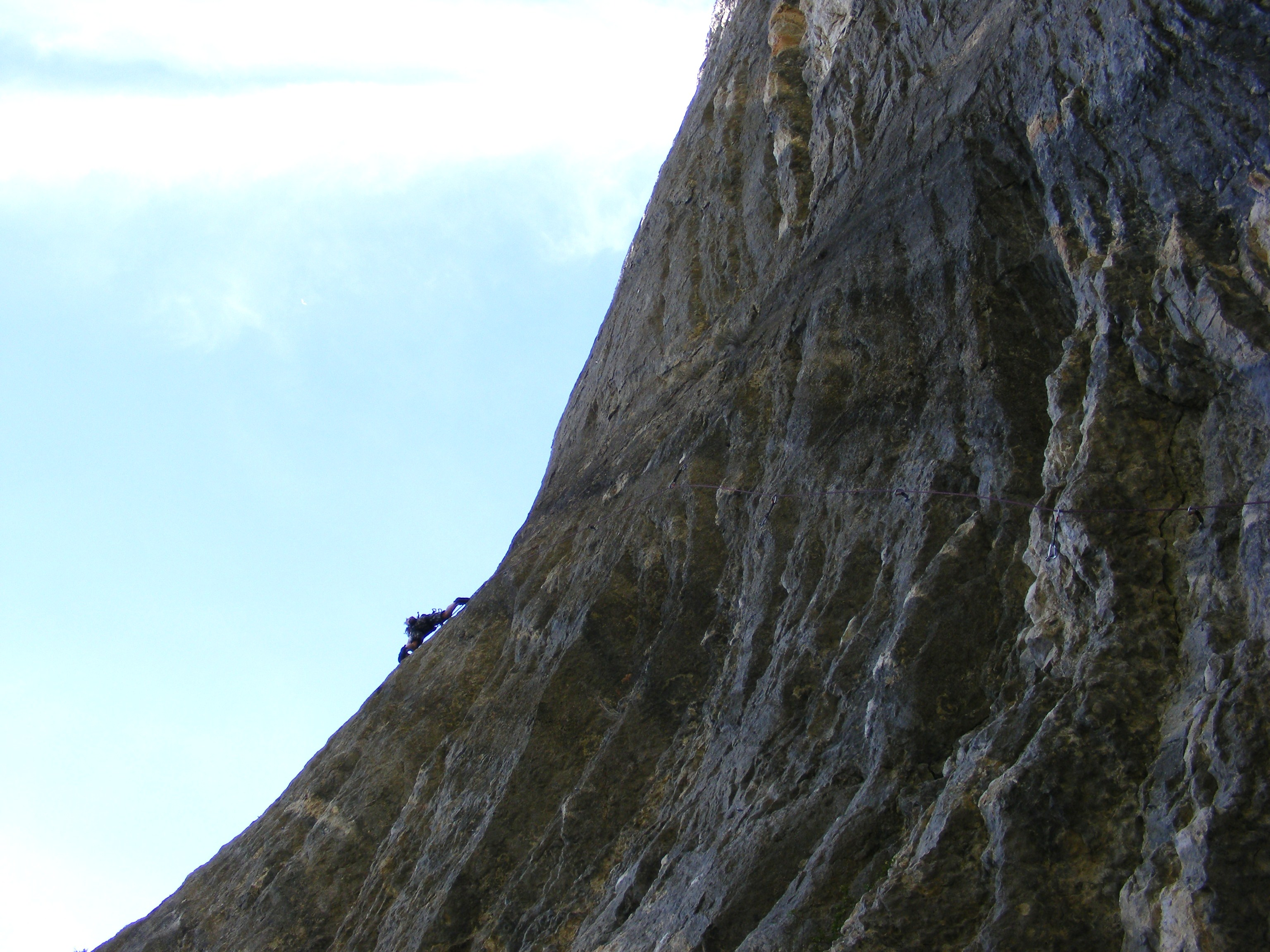 Climber on a route near the village of Orpierre, France